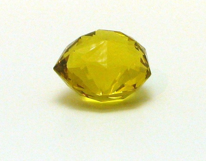 Copy of the famous Florentine Diamond from the "Reich der Kristalle" museum in Munich.